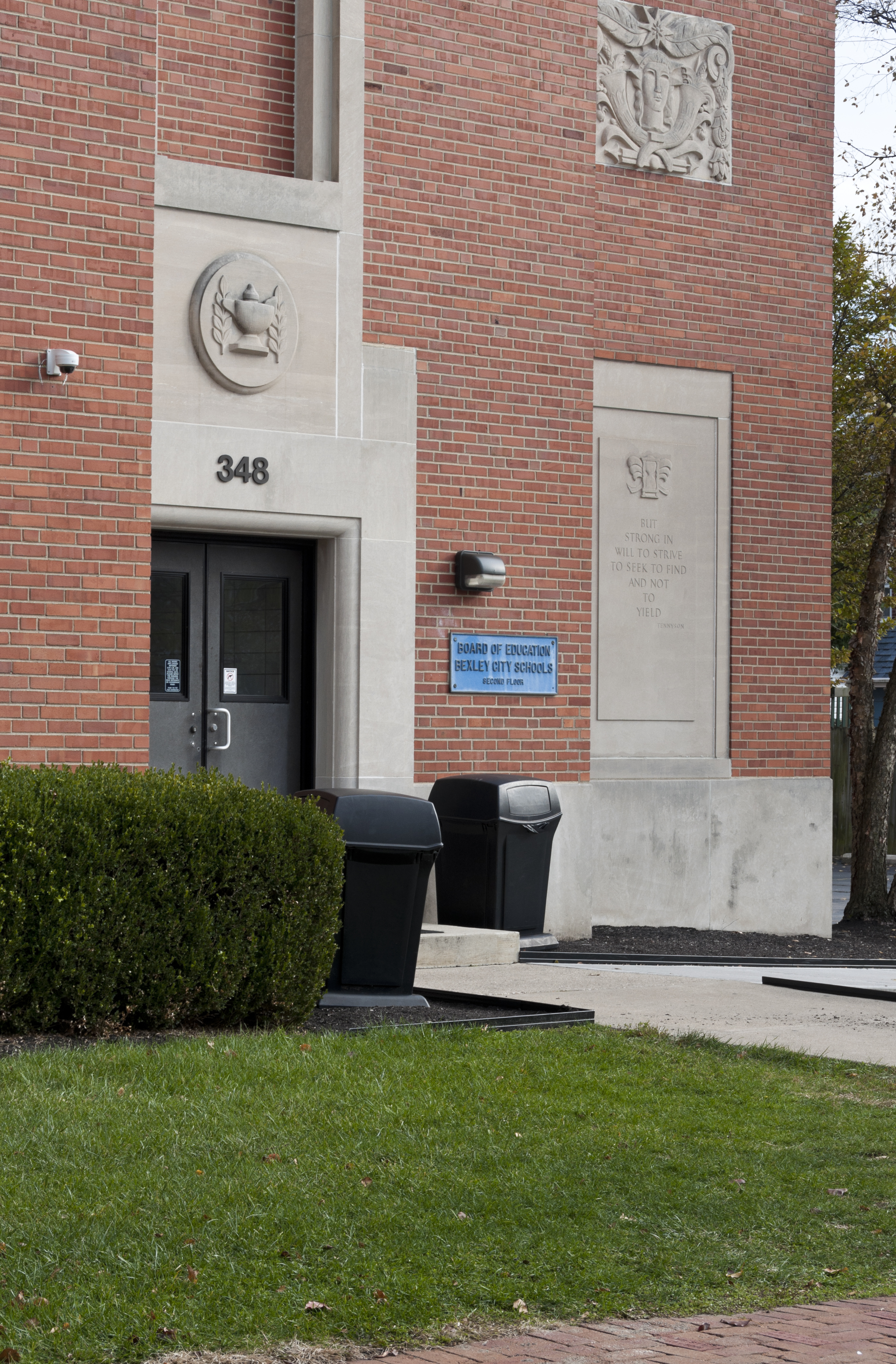 Bexley City School District Office located in the same building as Bexley High School and Bexley Middle School. The office of the Board of Education is located on the second floor.